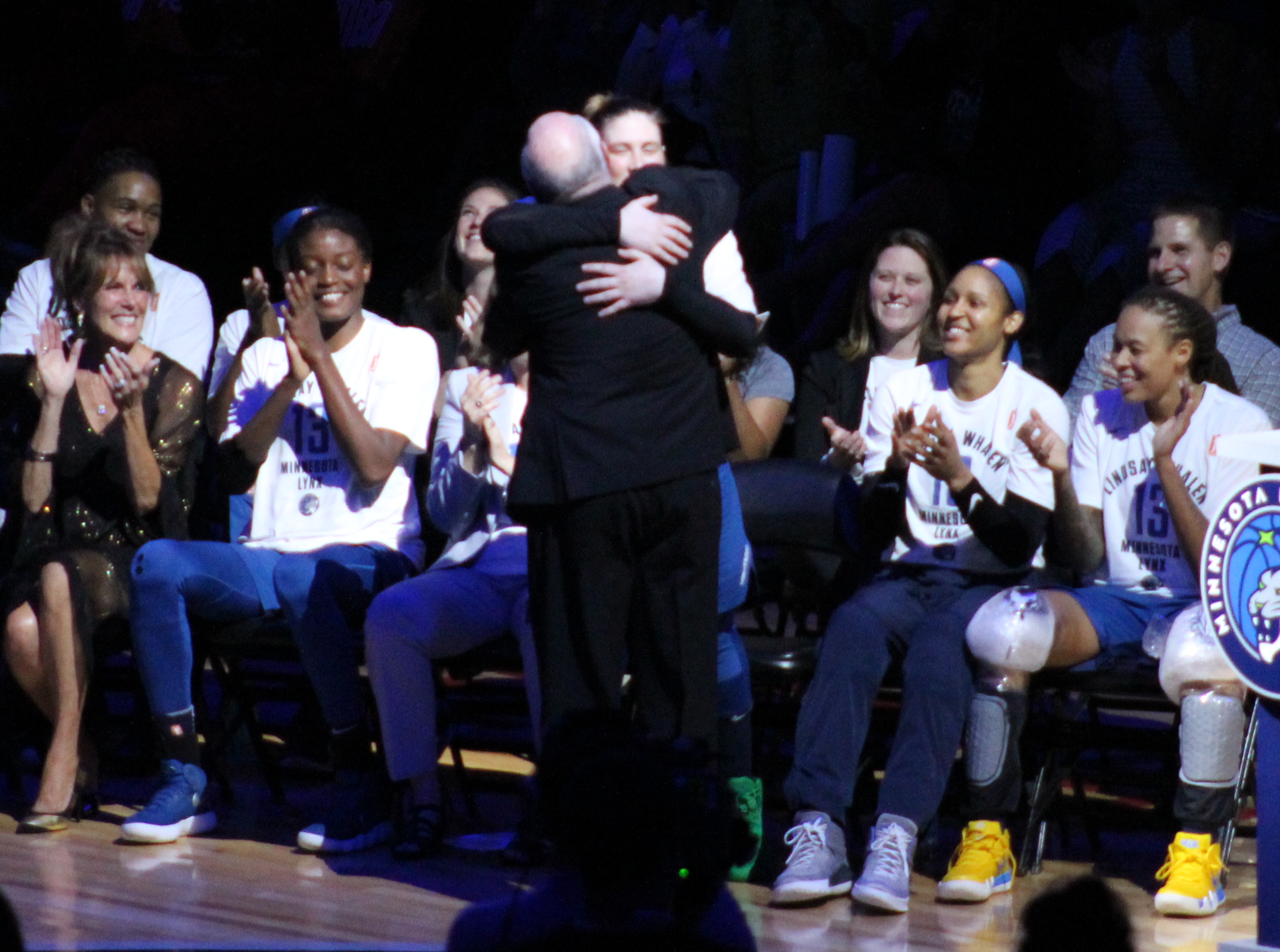 Mike Thibault hugs Lindsay Whalen at her WNBA retirement celebration